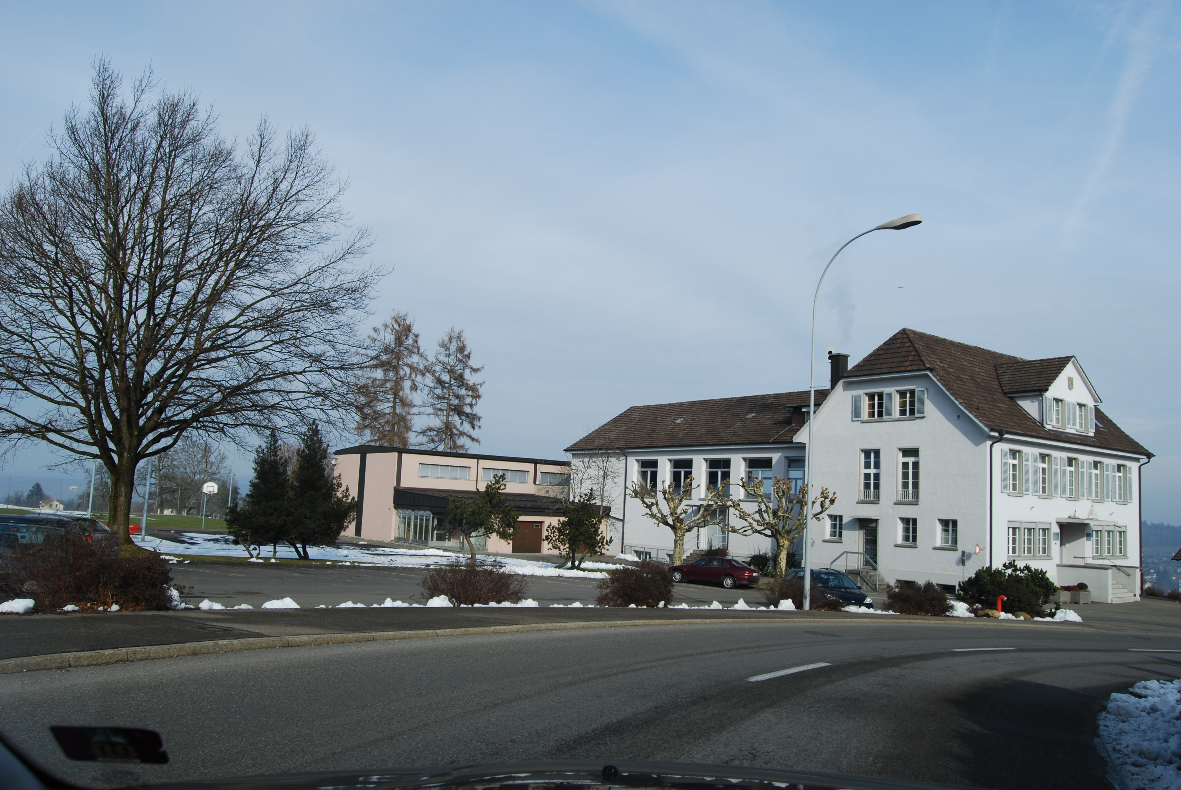 TOWN HOUSE Burg, canton of Aargau, SwitzerlandEsperanto: CASA DE CIUDAD Burg, Kantono Argovio, Svislando